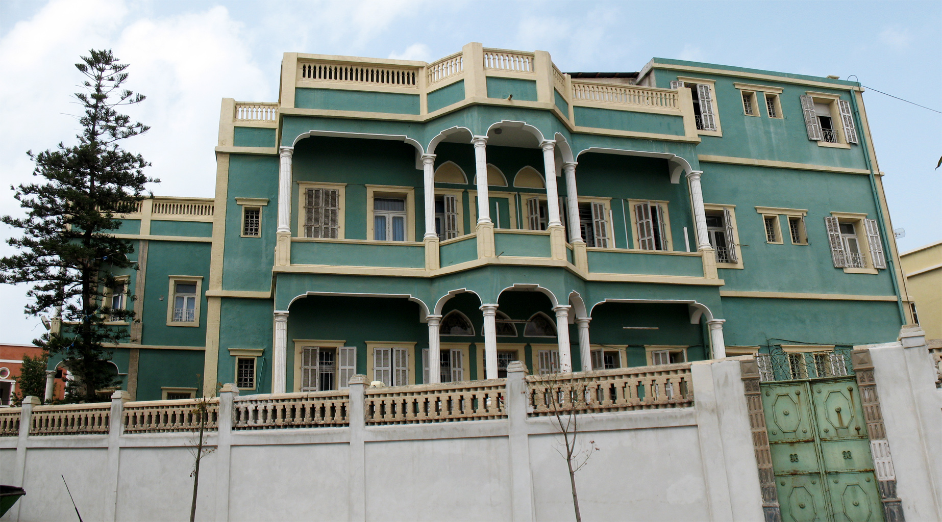 Green House (central military court building) in Jaffa, Israel